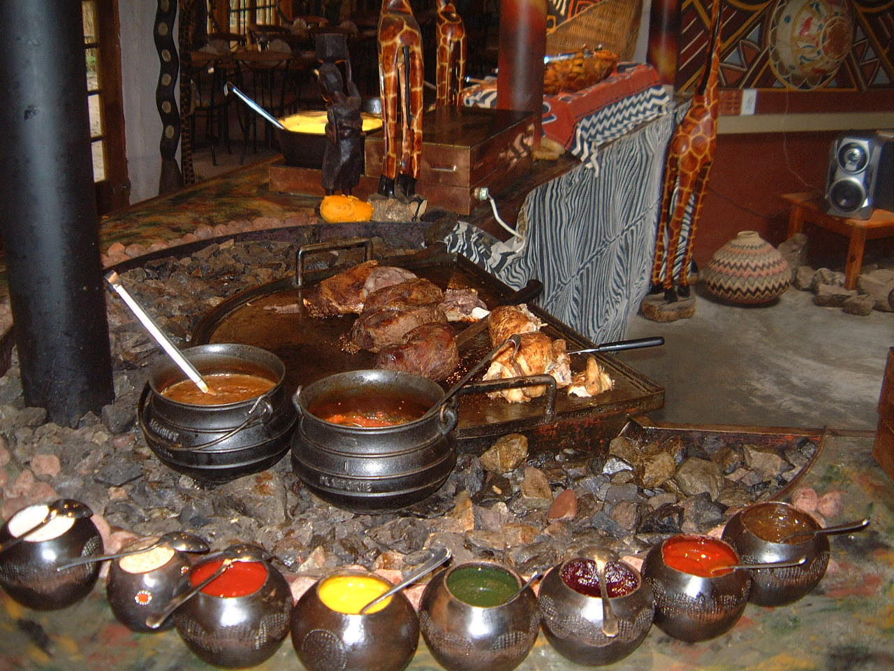 South African cuisine, with meats of wildlife and traditional sauces in the jars in the front.